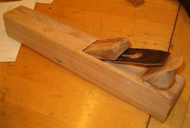 Special plane for making thick shavings for shavings baskets (splint baskets)